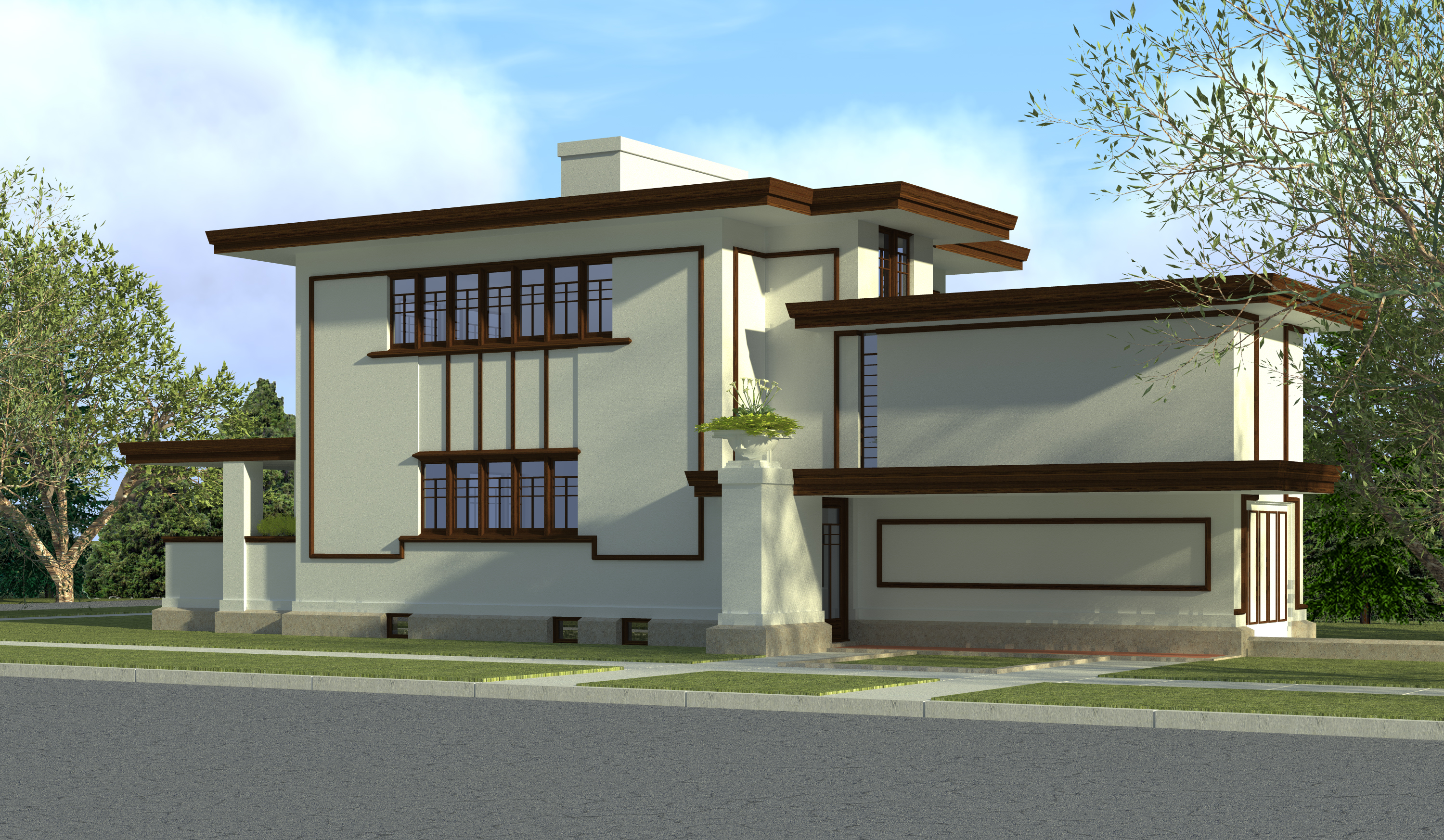 Digital reconstruction of the Wynant House (1916) by Frank lloyd Wright in Gary, Indiana. This house is the only known construction of plan D101 from Wright's Amercian System Built Homes. The house was largely destroyed in a 2006 but the ruins still stand. This scene was modeled in Google SketchUp 7 and rendered with Artlantis Studio 2.1. Some elements such as the original entrance door, garage door, and urn were lost long ago. These parts were represented as accurately as possible using other details from the building and other Wright works from the same time period.